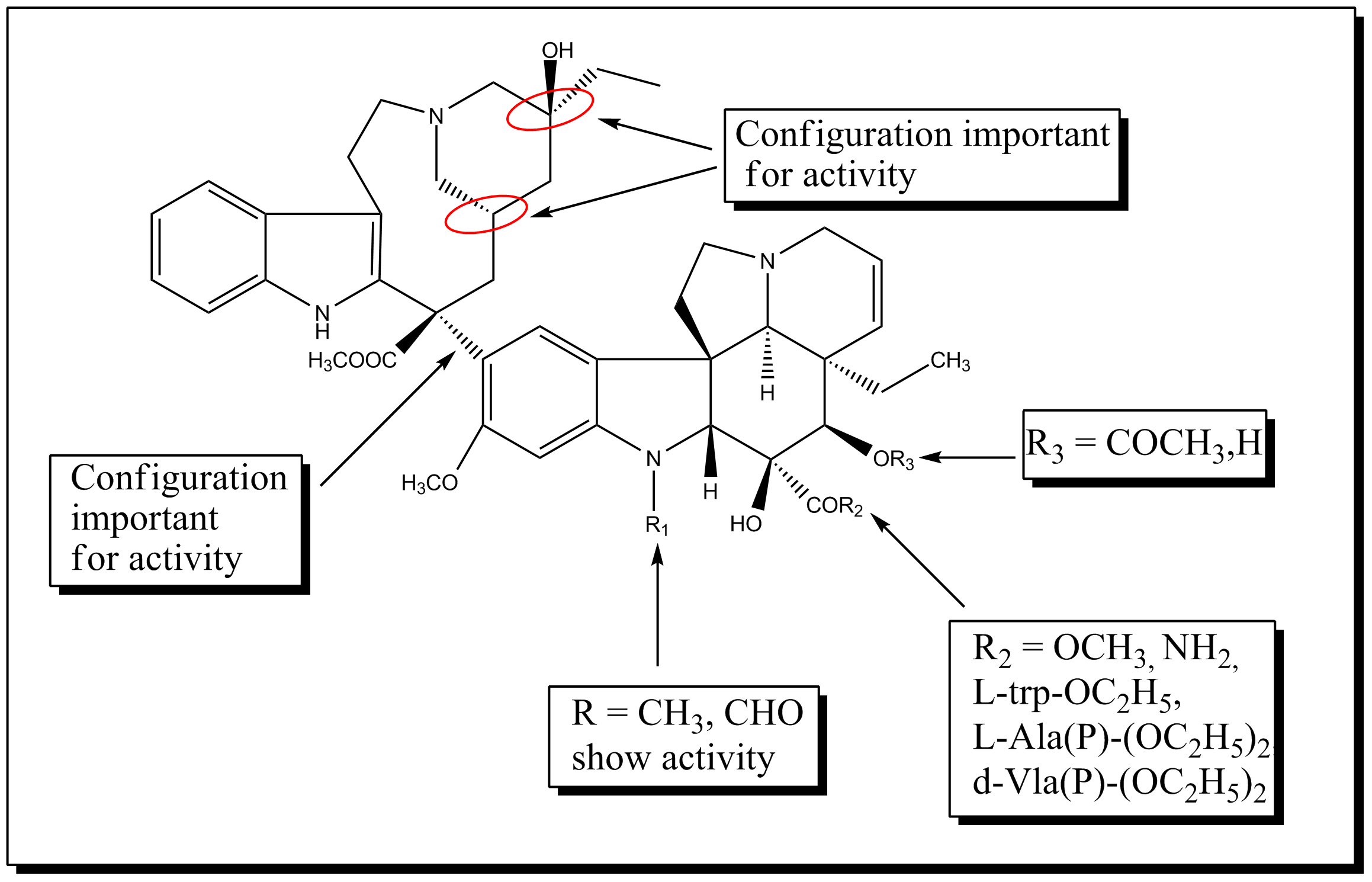 Importance of the functional groups and the rings are shown.